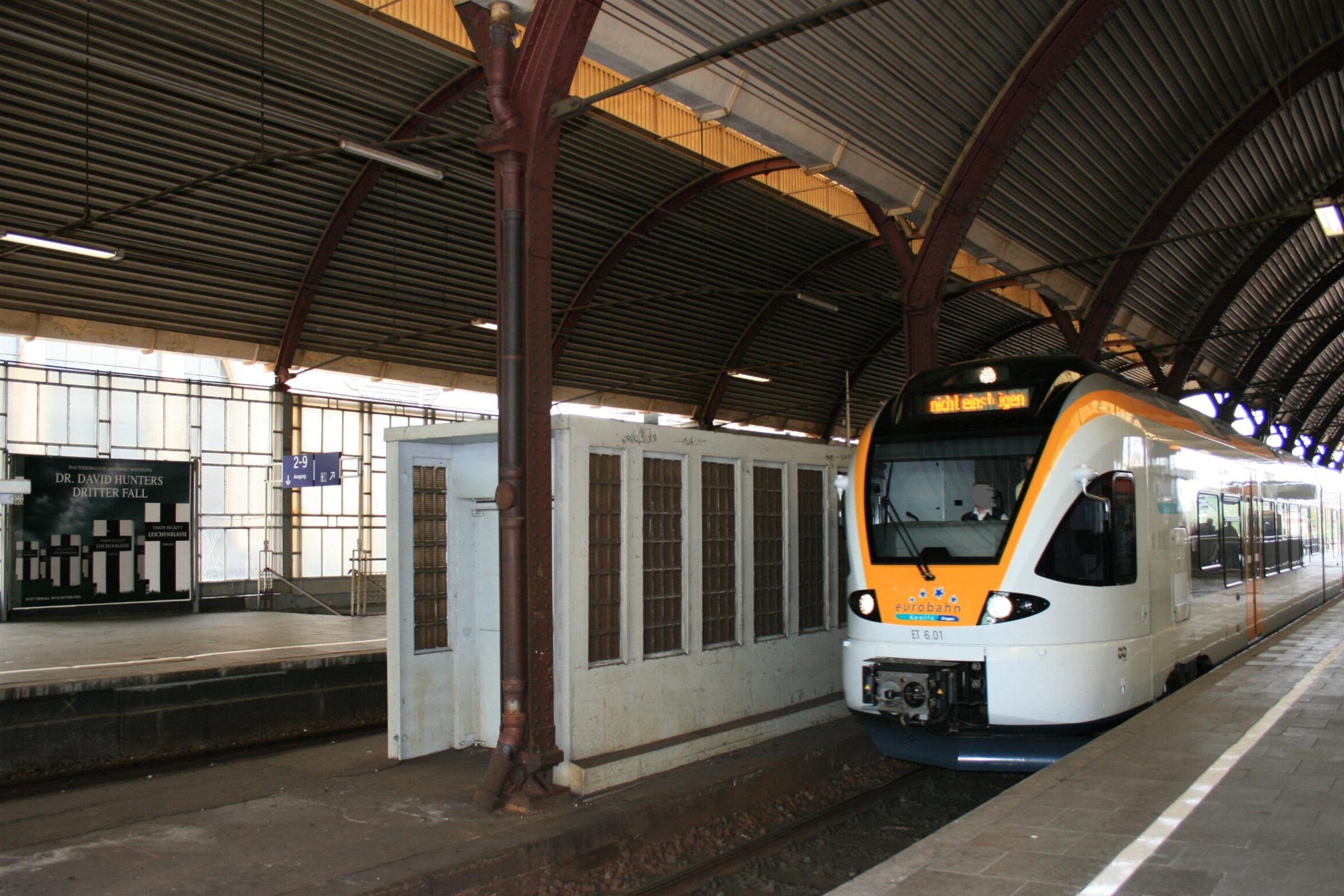 Cultural heritage monument No. E 029 in Mönchengladbach